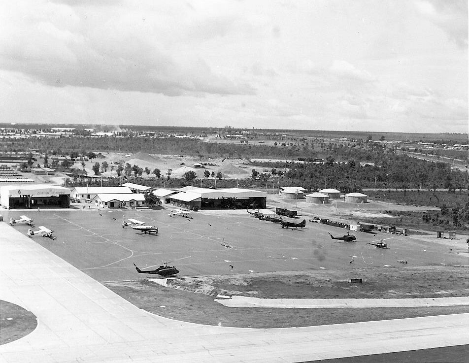 Korat RTAFB - 70th Aviation Detachment (Army) Parking Ramp